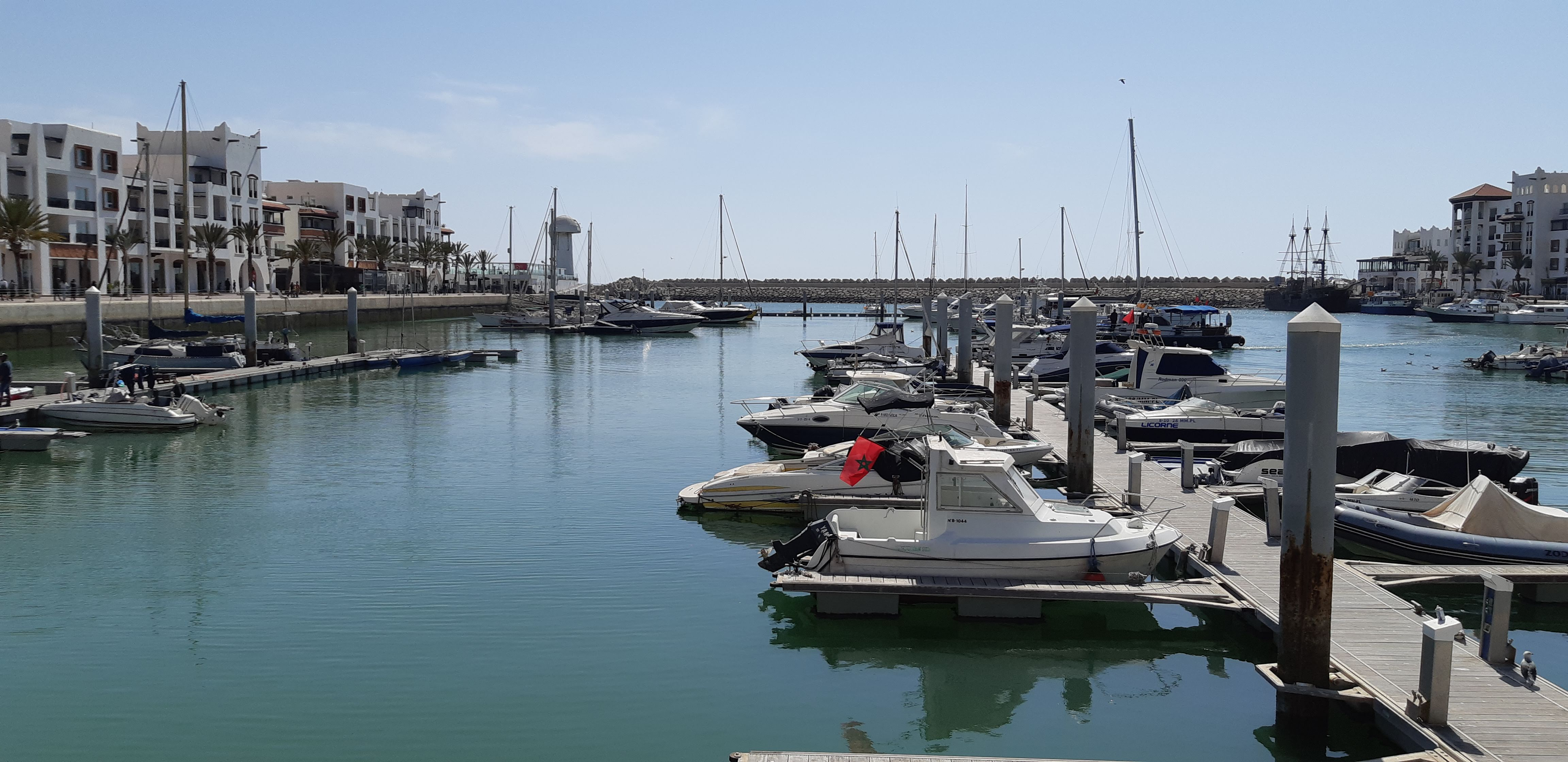 Marina Agadir yacht terminal 2020 This is an image with the theme "Africa on the Move or Transport" from: Morocco